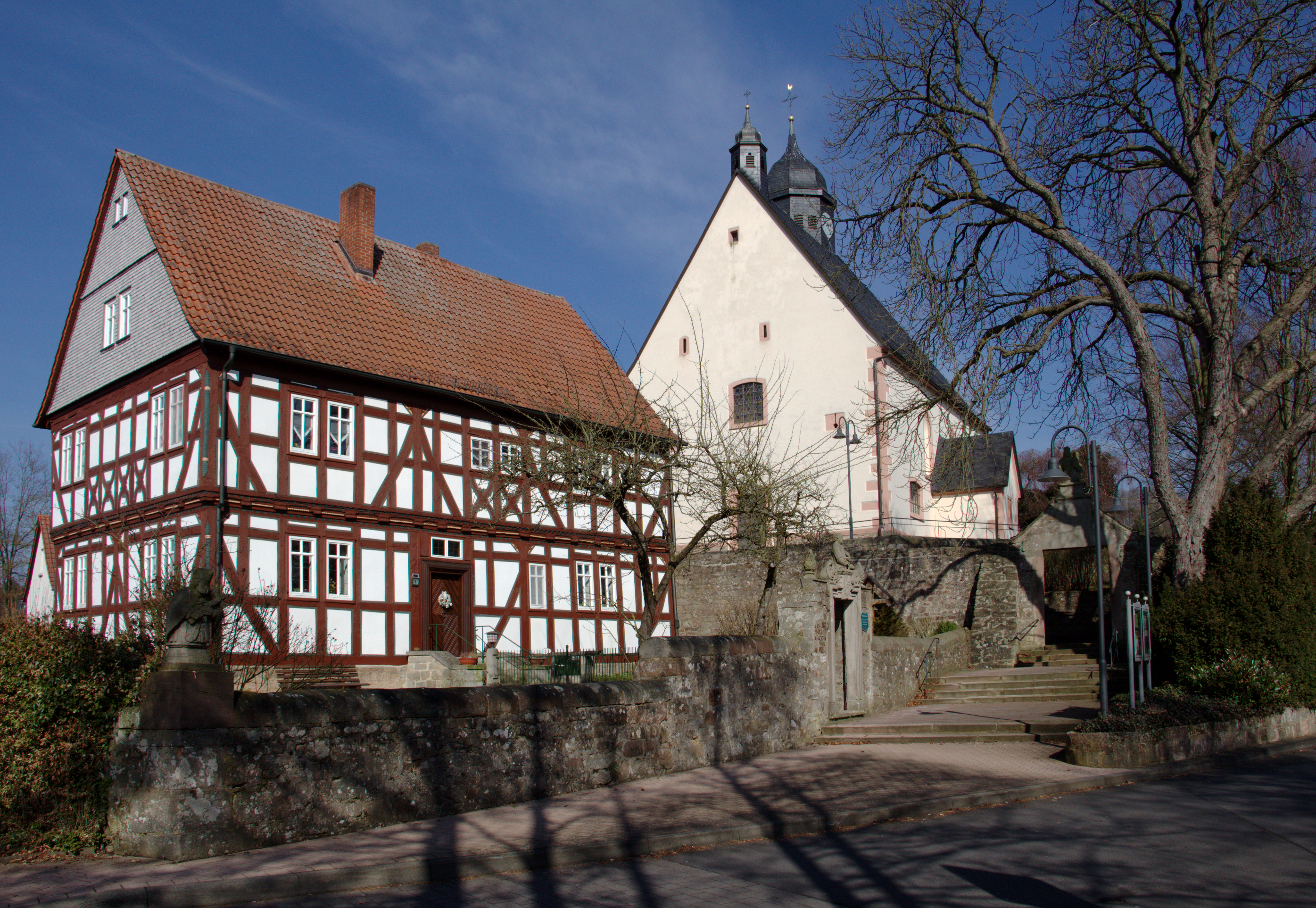 Catholic Church St. Margareta, An der Wehrmauer in Margretenhaun, Petersberg, Hesse, Germany